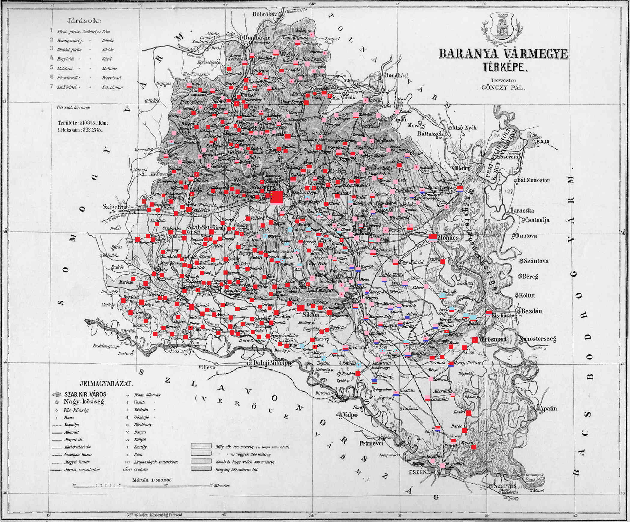 Ethnic map of the county (with data of the 1910 census). Key: red - Hungarians; pink - Germans; dark blue - Serbs; light blue - Croatians (with the Šokci); black - Roma. Coloured dots in plain rectangles imply the presence of smaller minority populations (generally more than 100 people or 10%). Multicoloured rectangles imply cities and villages with multi-ethnic populations with the order of the stripes following the ethnic composition of the settlement.